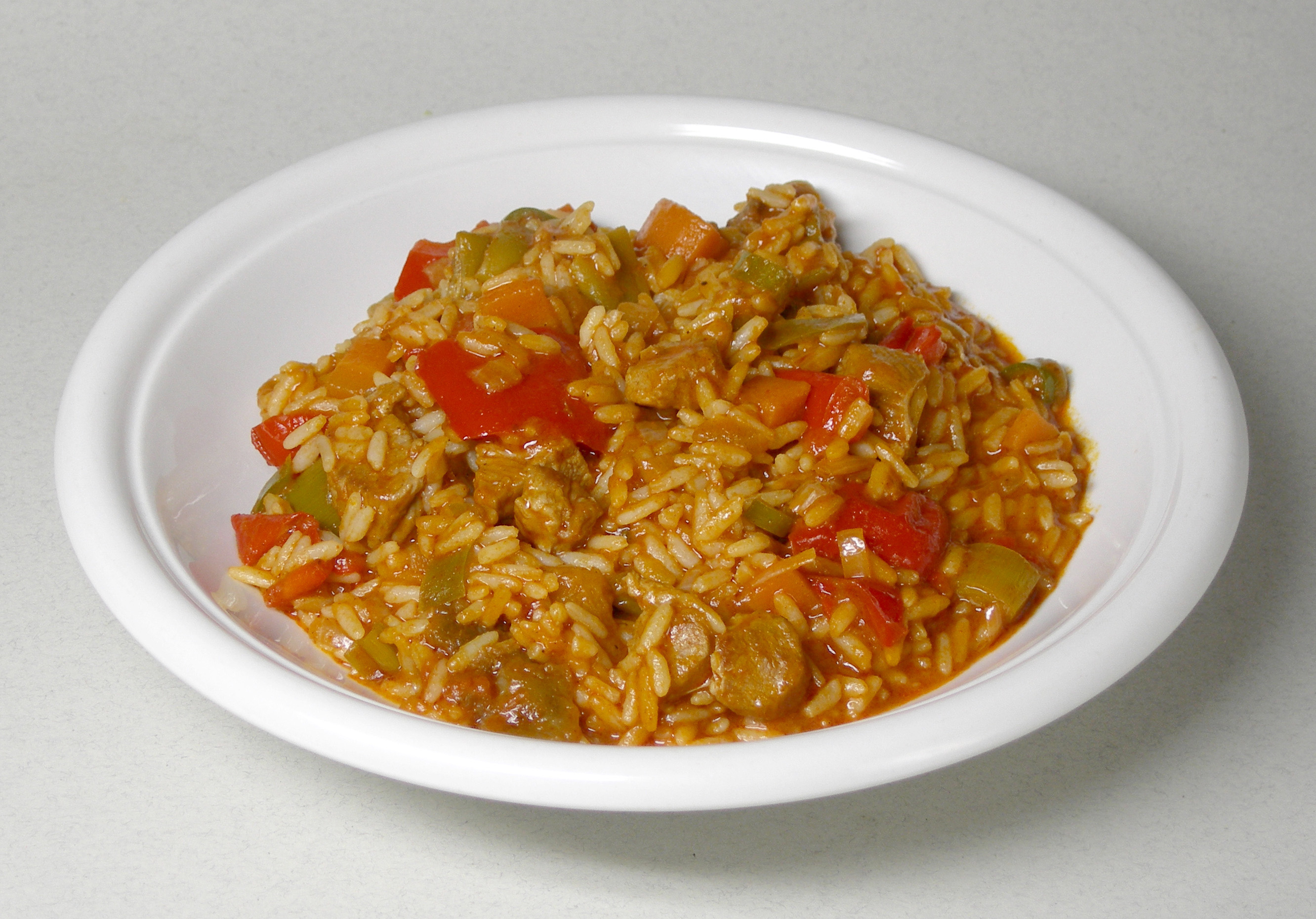 Djuvec with rice